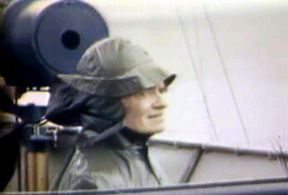 Vice Admiral William F. Halsey, USN, aboard the aircraft carrier USS Enterprise (CV-6) during the Doolittle Raid in April 1942.